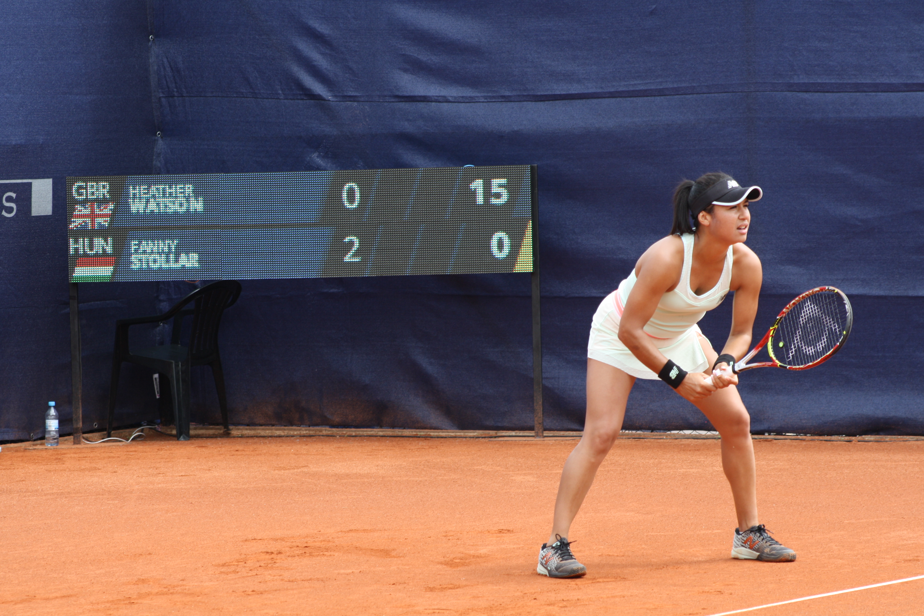 Heather Watson, May 2018